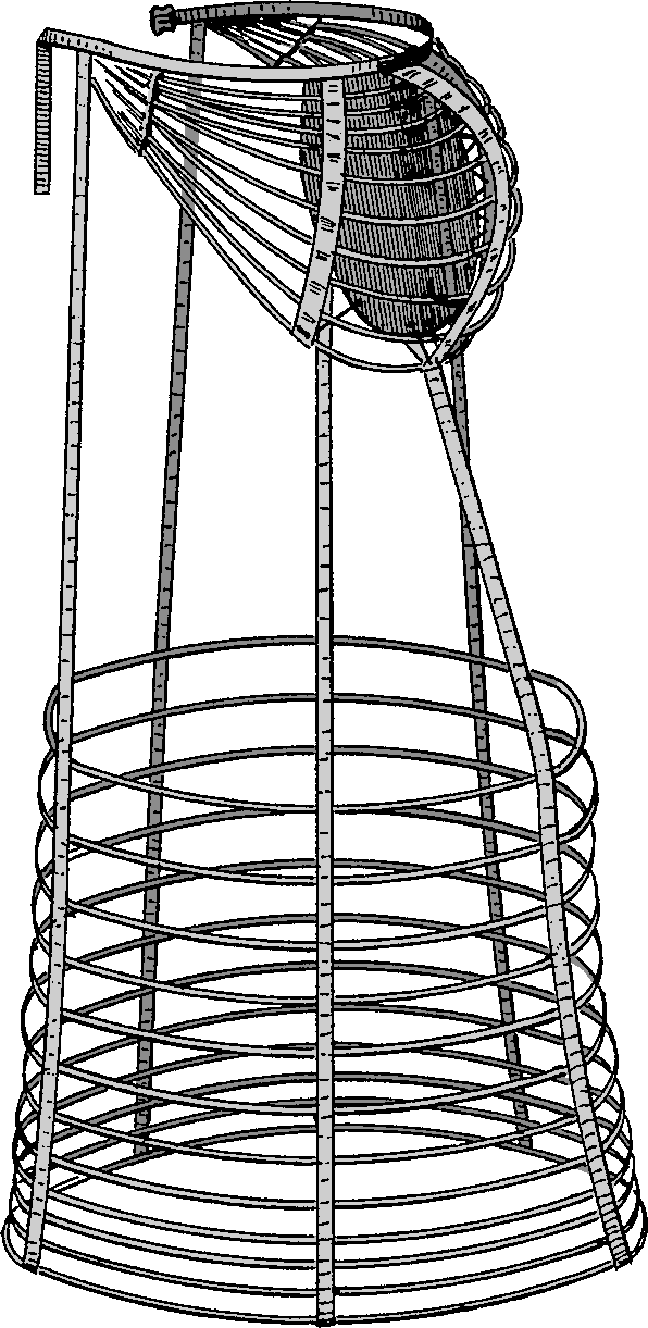 Design for a cage-crinoline with built in bustle, American, 1885